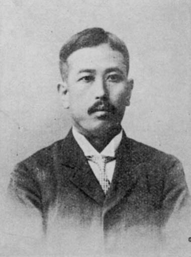 Mr. Makoto Sawamura, professor of the College of Agriculture at Imperial University of Tokyo and inspector of the Department of Education.